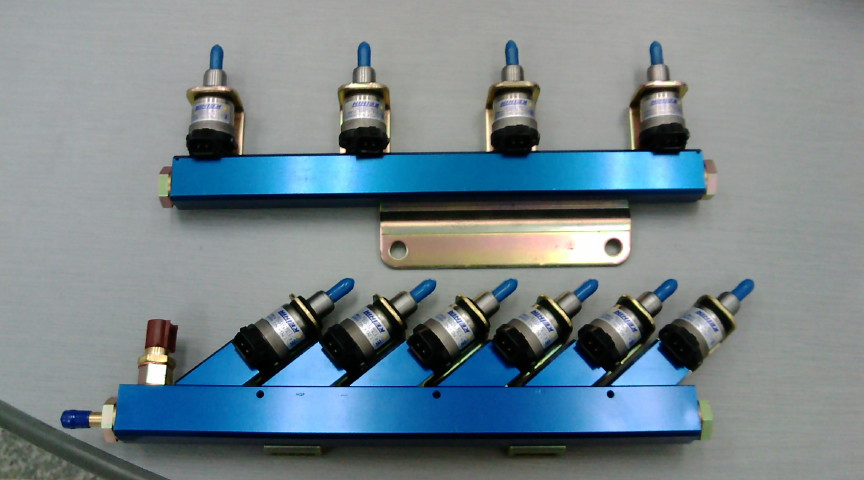 Gas delivery modules and gas injectors for 4 and 6 cylinders engine. The module is used for LPG conversion. The injector is same as CNG system. These products are made in Japan.